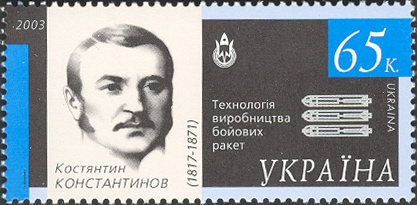 Stamp of Ukraine